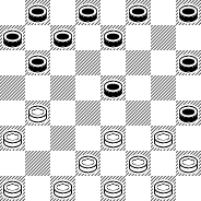 Opening "Igra Kogana" (Игра Когана) in russian checkers